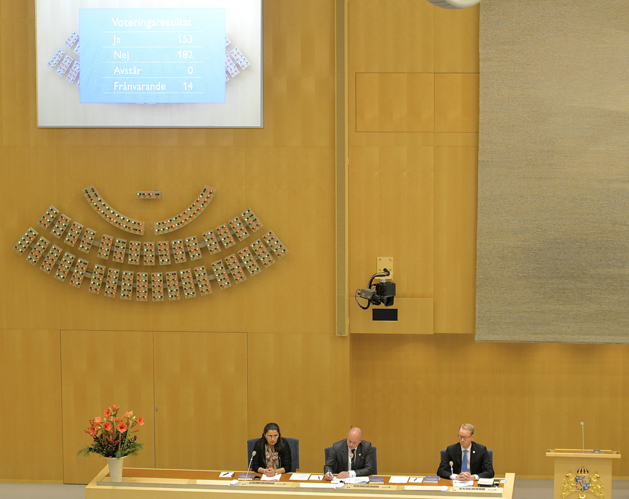 The government's budget fell. The Riksdag voted for the Alliance's proposal on 3 December 2014 with the numbers 182 against the 153 yes.